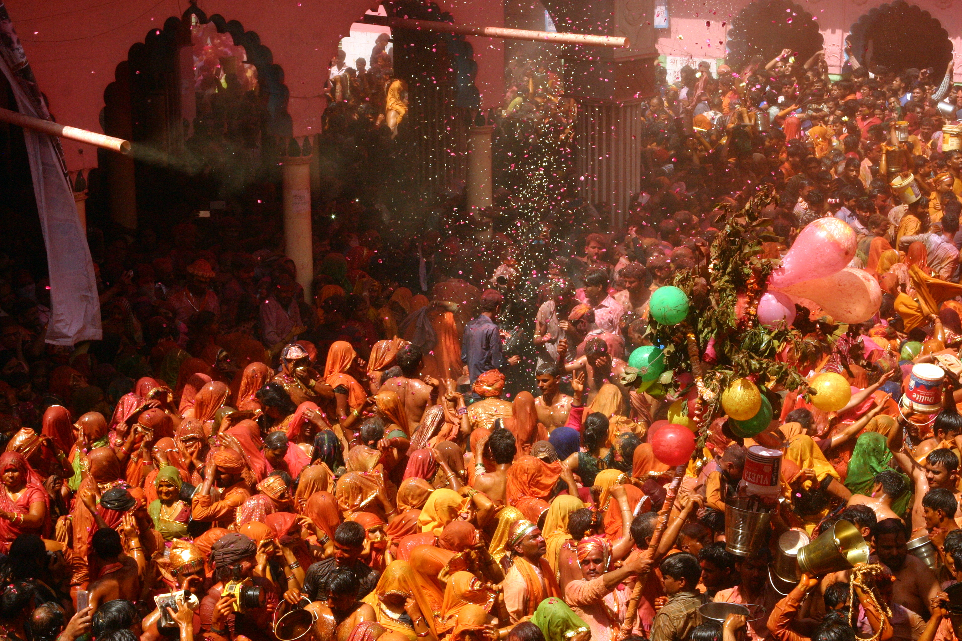 Flickr description India - Holi festivities. Huranga at Dauji Temple in Baldeo the day after Holi.